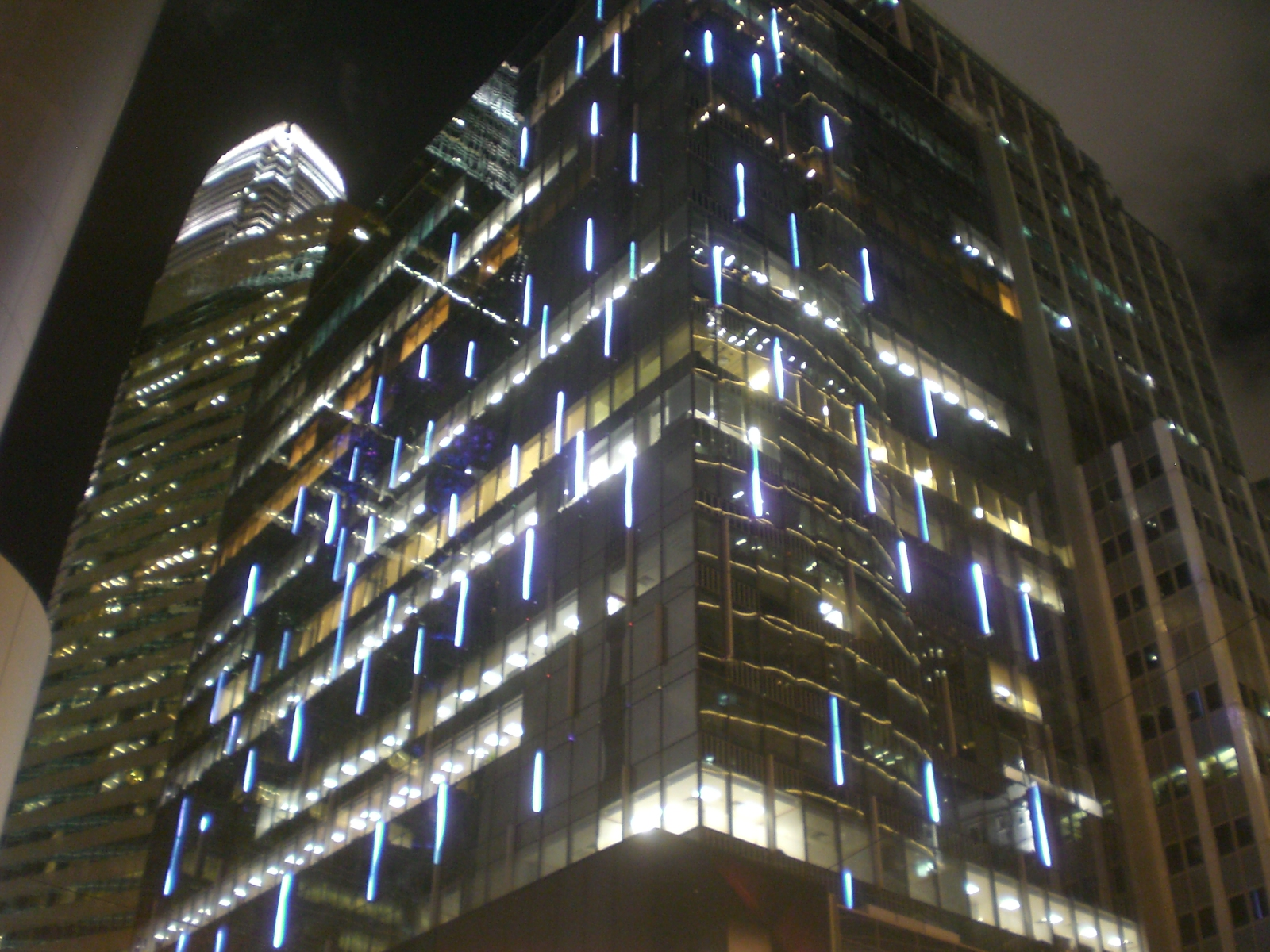 香港中環zh:盈置大廈, Central, Hong Kong